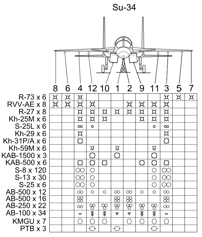 Su-34 Hardpoint & Armament arrangement